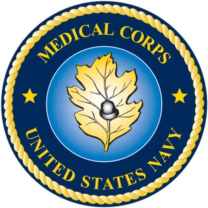 Seal of the United States Navy Medical Corps